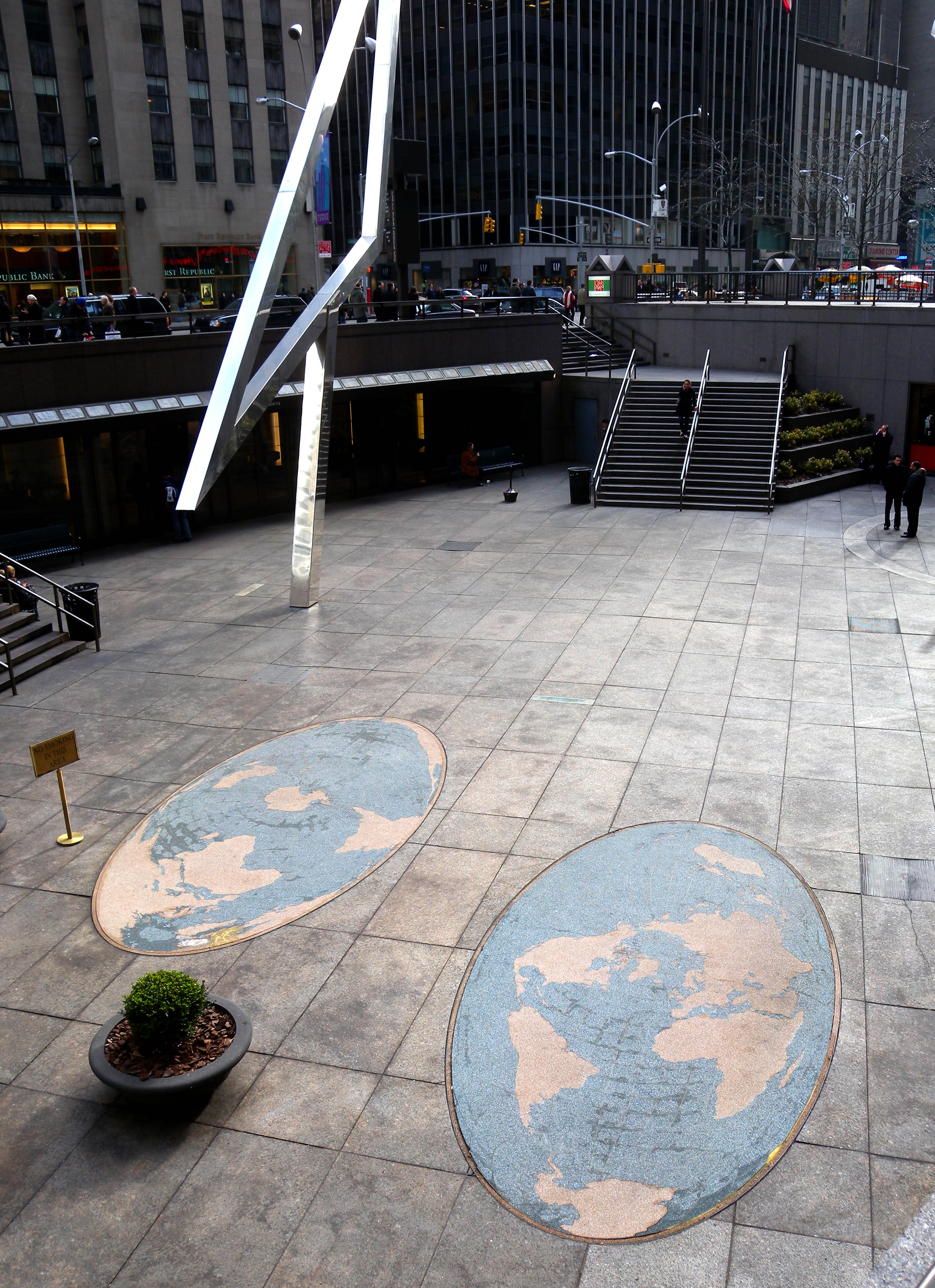 Looking south at world maps in sunken plaza of en:1221 Avenue of the Americas on a cloudy afternoon.